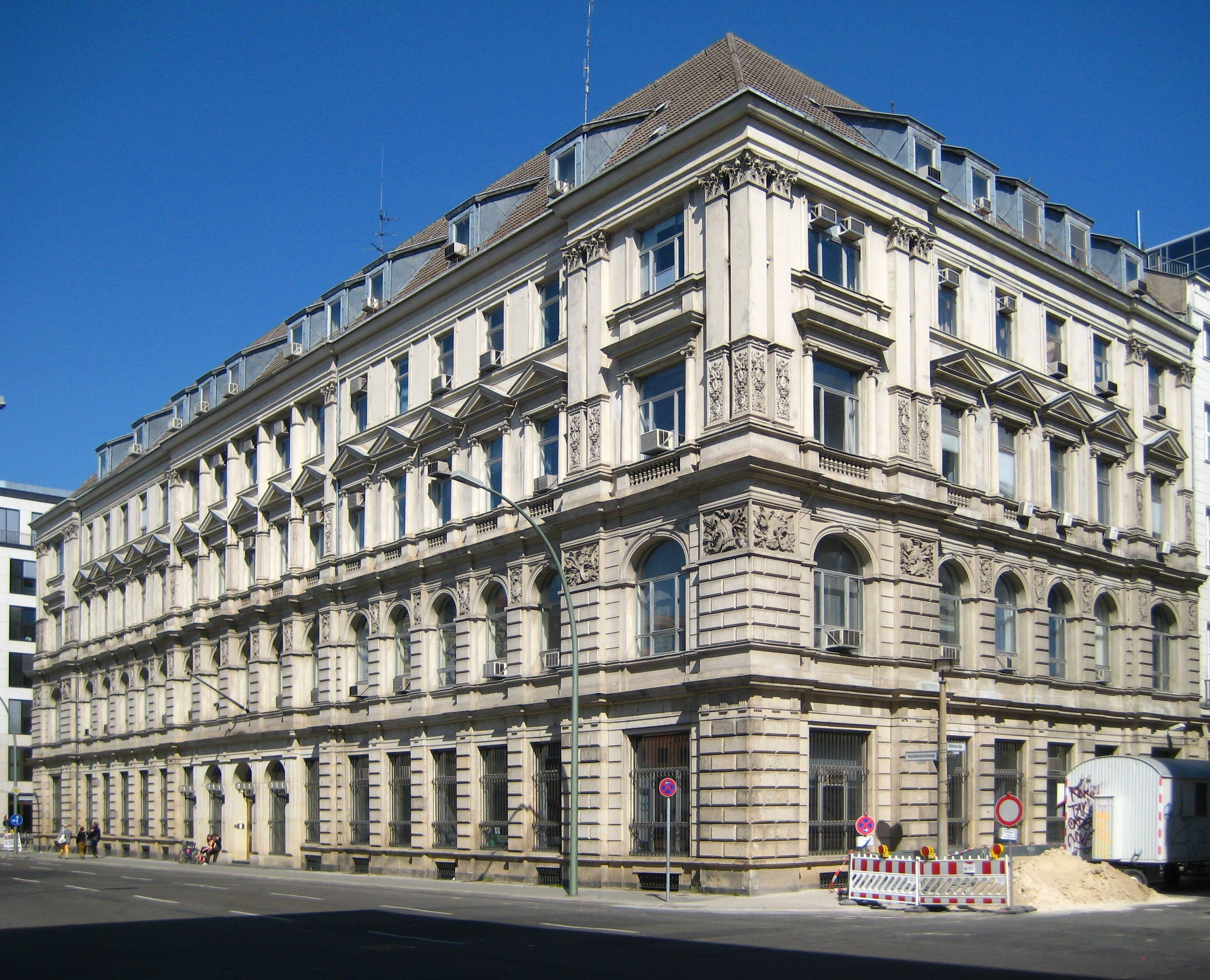 The "Warenhaus für Armee und Marine" ("Department Store for Army and Navy") at Neustädtische Kirchestraße in Berlin-Mitte, formerly seat of the US embassy in the GDR and reunified Germany.